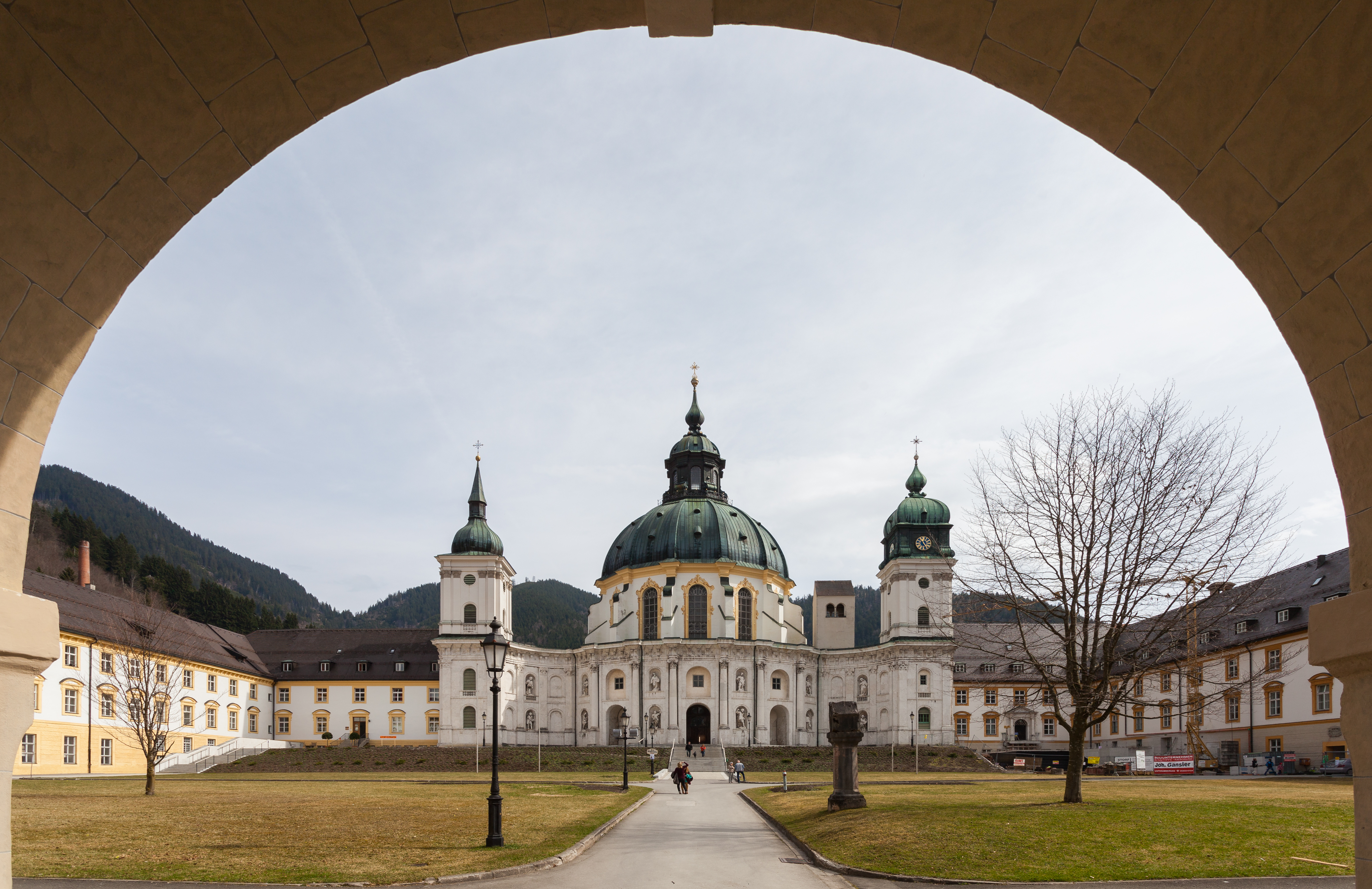 Ettal Abbey, Bavaria, Germany